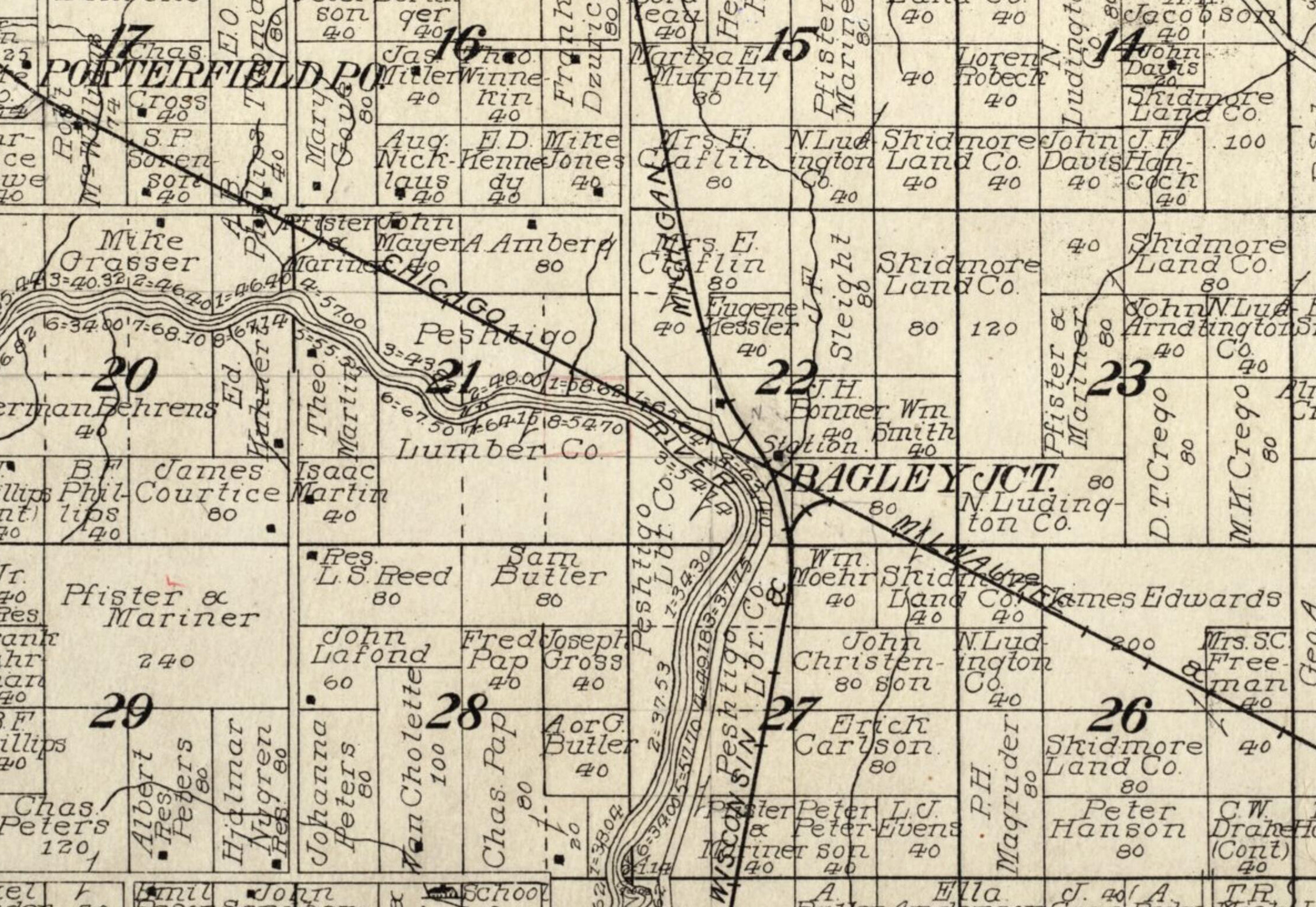 Map detail of Bagley Junction, Wisconsin. From Standard Atlas of Marinette County Wisconsin Including a Plat Book of the Villages, Cities and Townships of the County. 1912. Chicago: Geo. A. Ogle & Co.